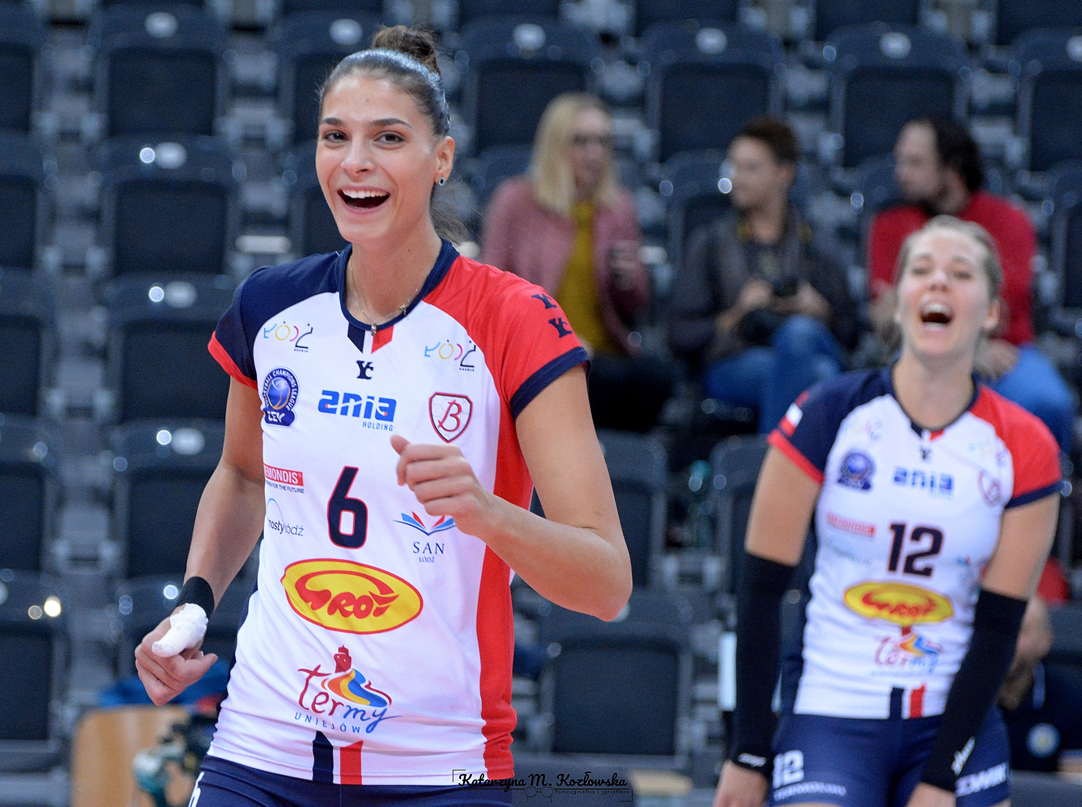 Jovana Brakočević (playing for Grot Budowlani Łódź, 2018)